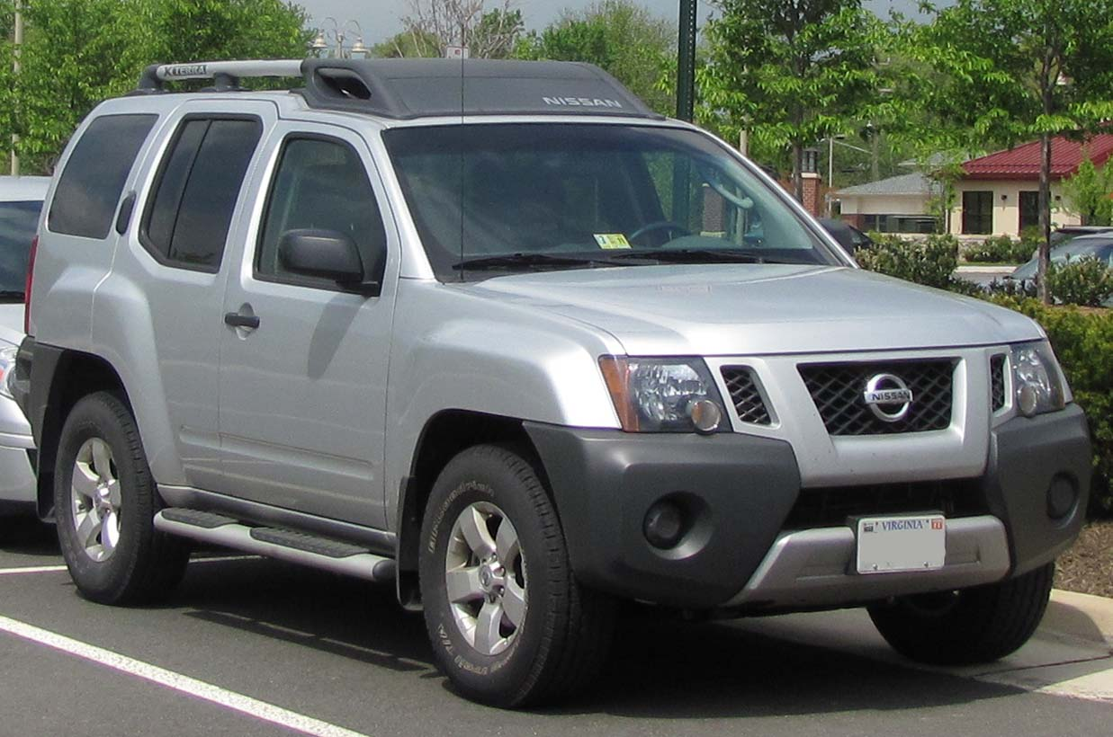 2009-2010 Nissan Xterra photographed in Gainesville, Virginia, USA.